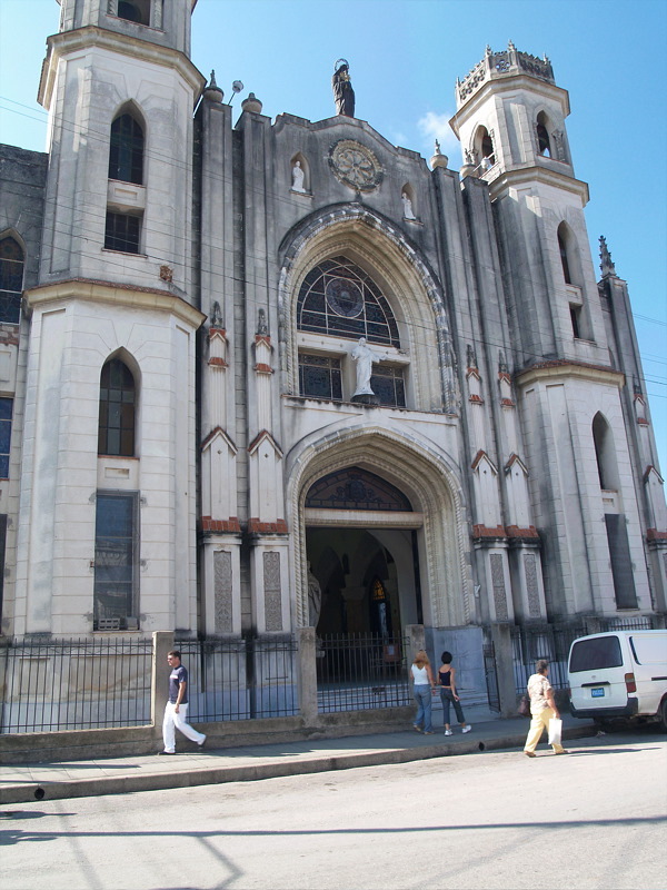 mine